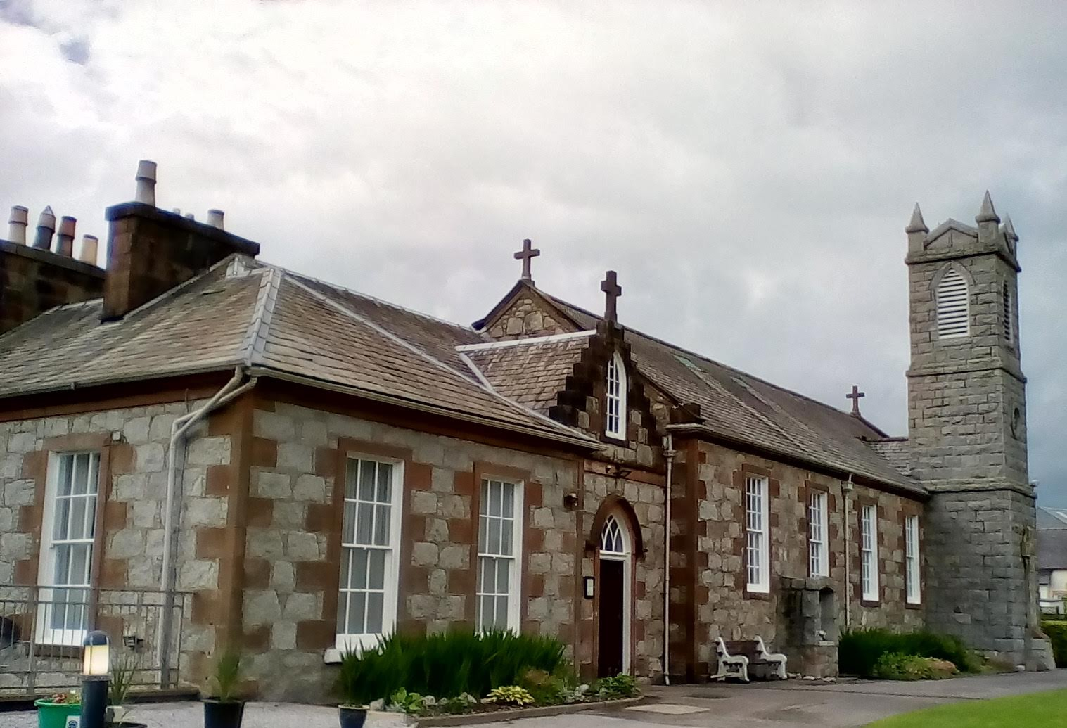 St Peter's Catholic Church, Dalbeattie, Kirkcudbrightshire, consecrated in 1814.